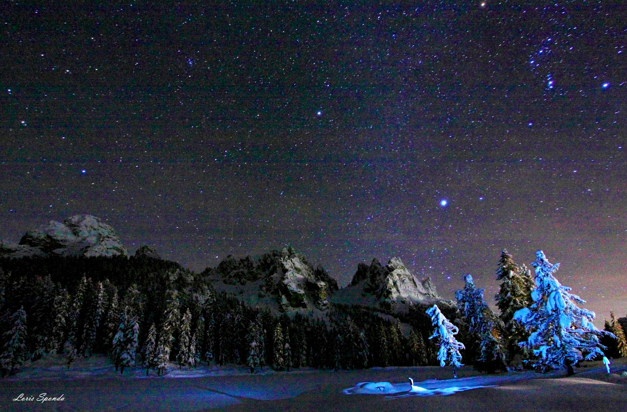 stars in the sky above the Alps